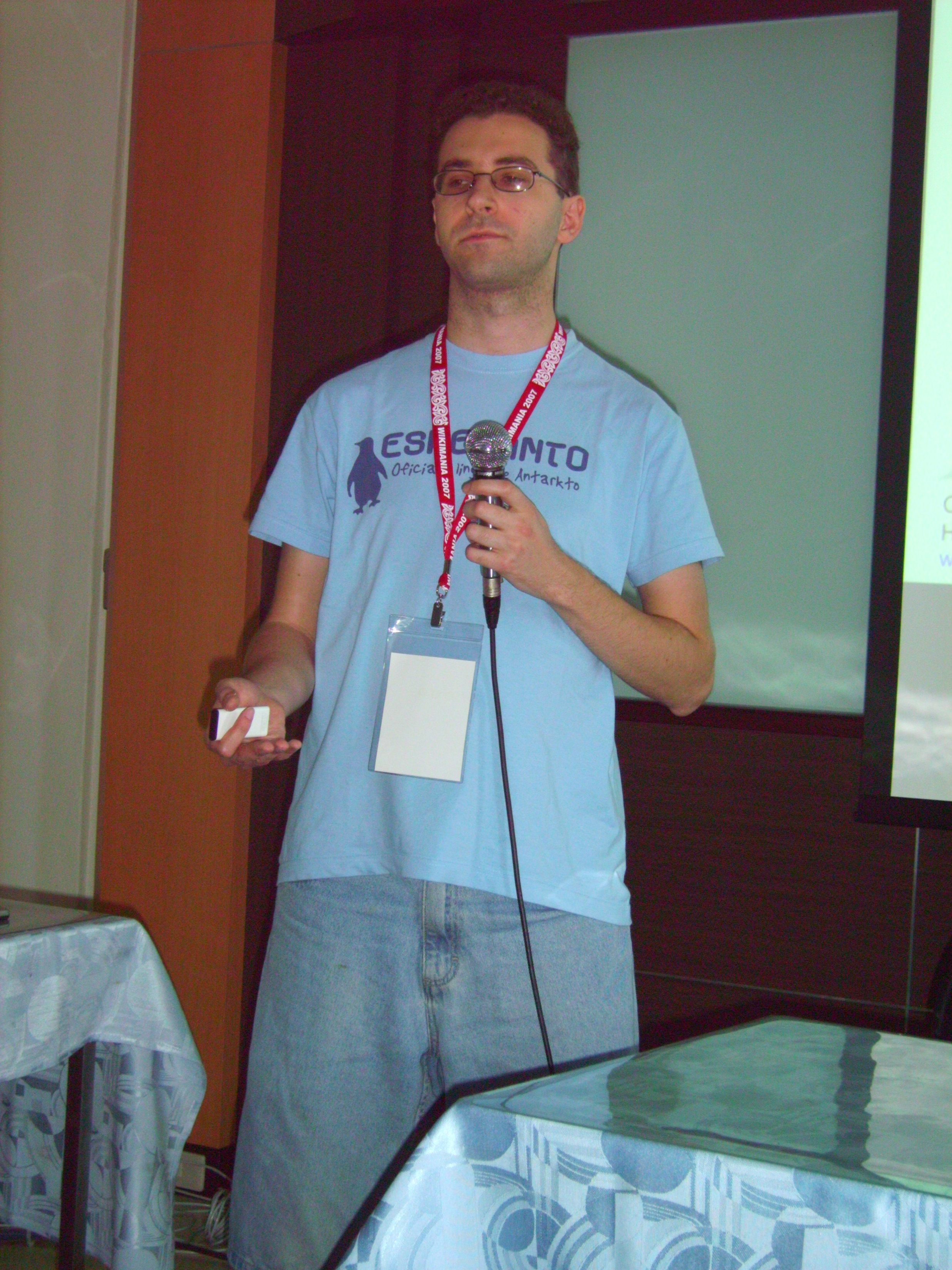 Wikimania 2007 Session 1203: Chuck Smith.